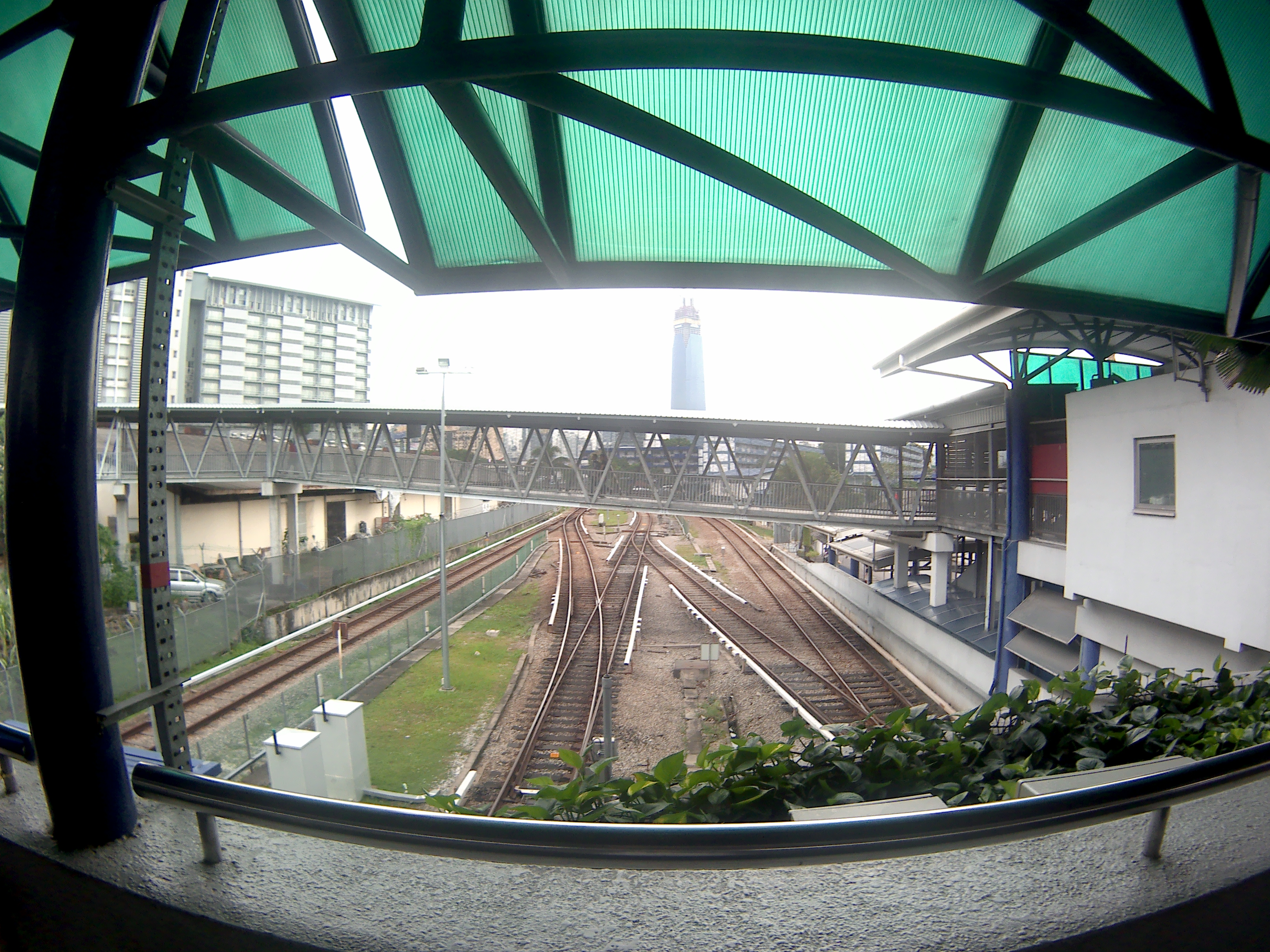 LRT Track around Chan Sow Lin LRT station